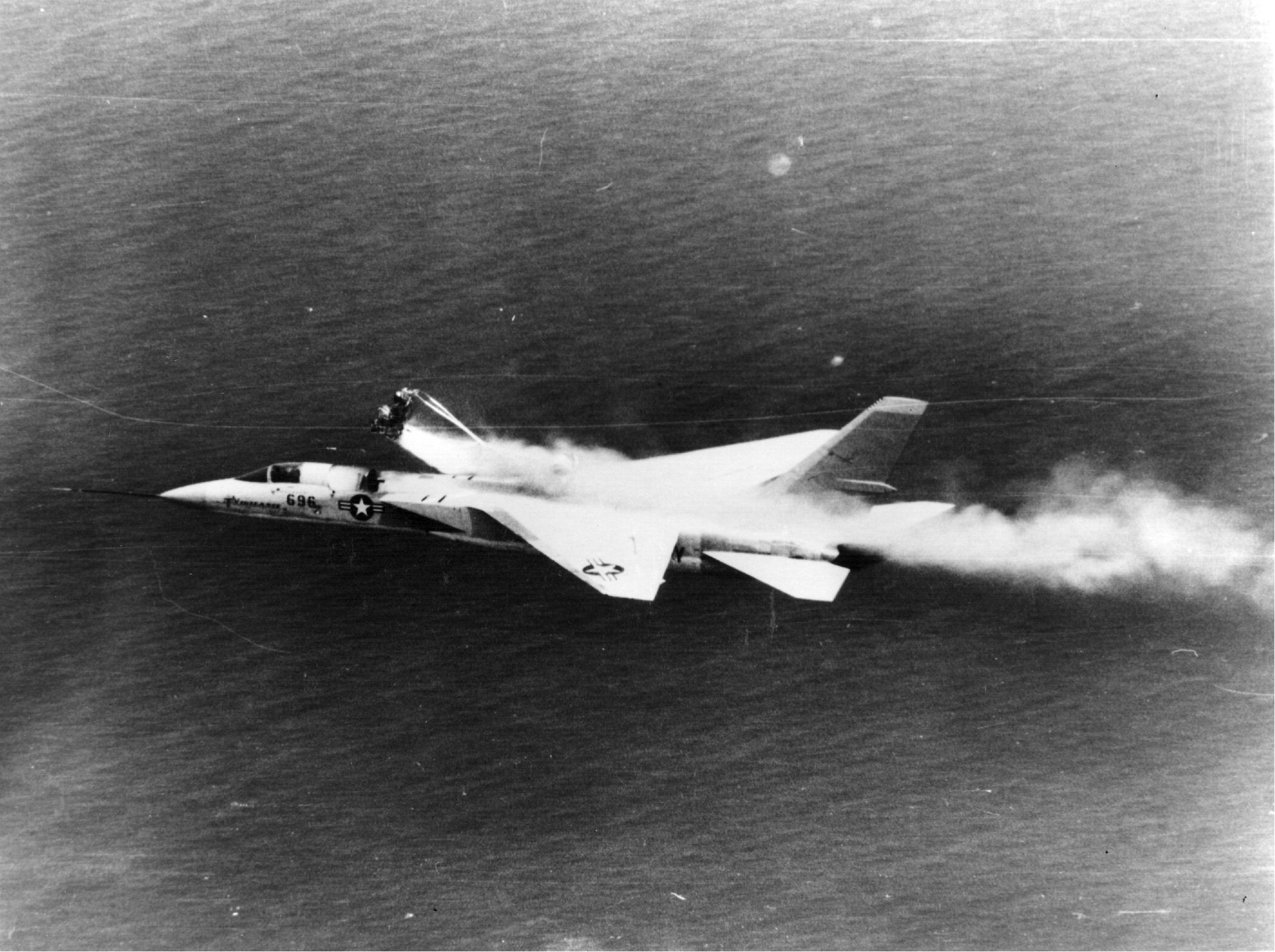 Photo of an ejection seat test of a U.S. Navy North American A-5A (then A3J-1) Vigilante bomber (3rd production aircraft BuNo 146696), circa 1960.